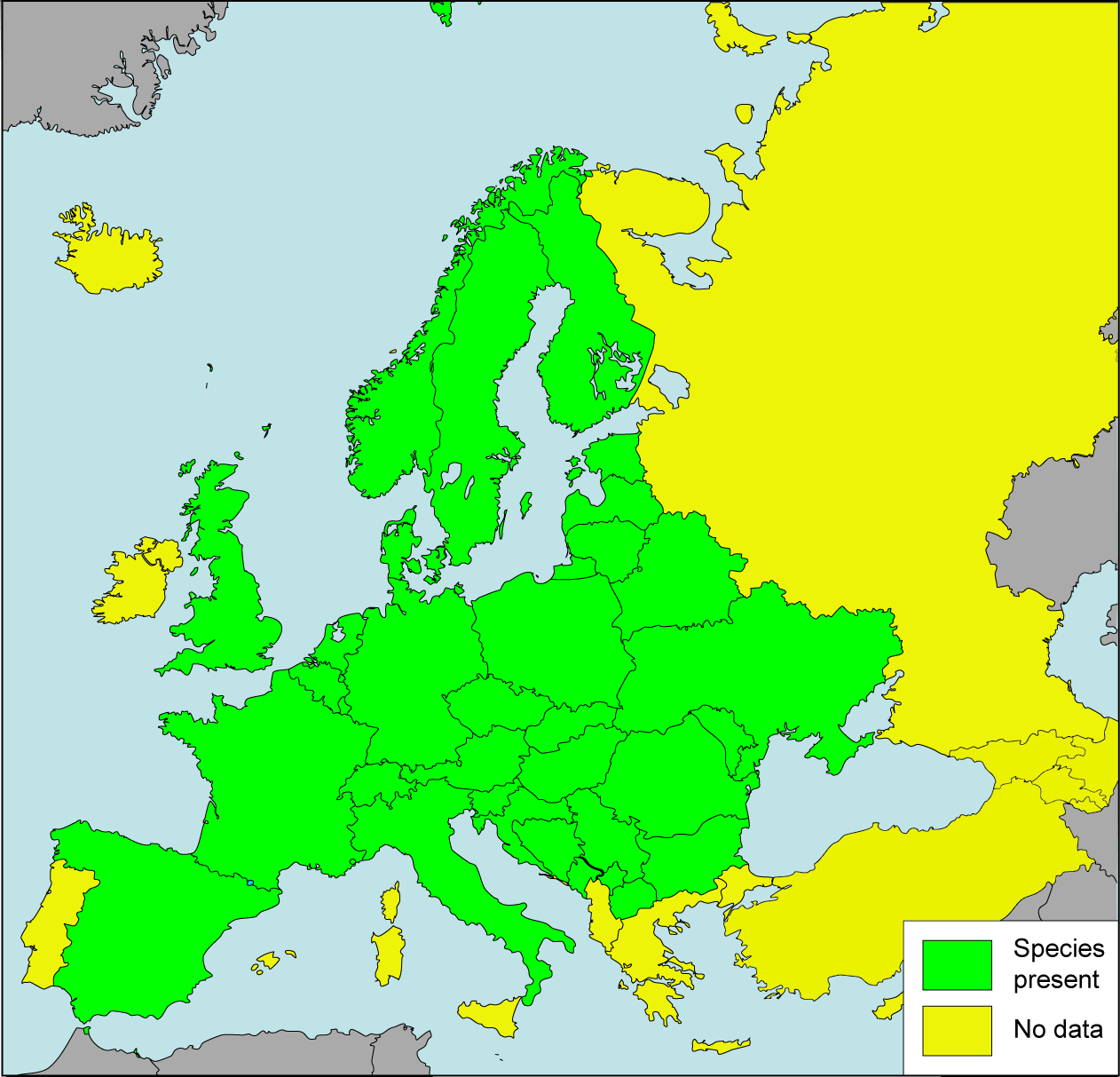 'Helix pomatia', land snail species: presence in European countries based upon data from: Fauna Europaea: Helix pomatia